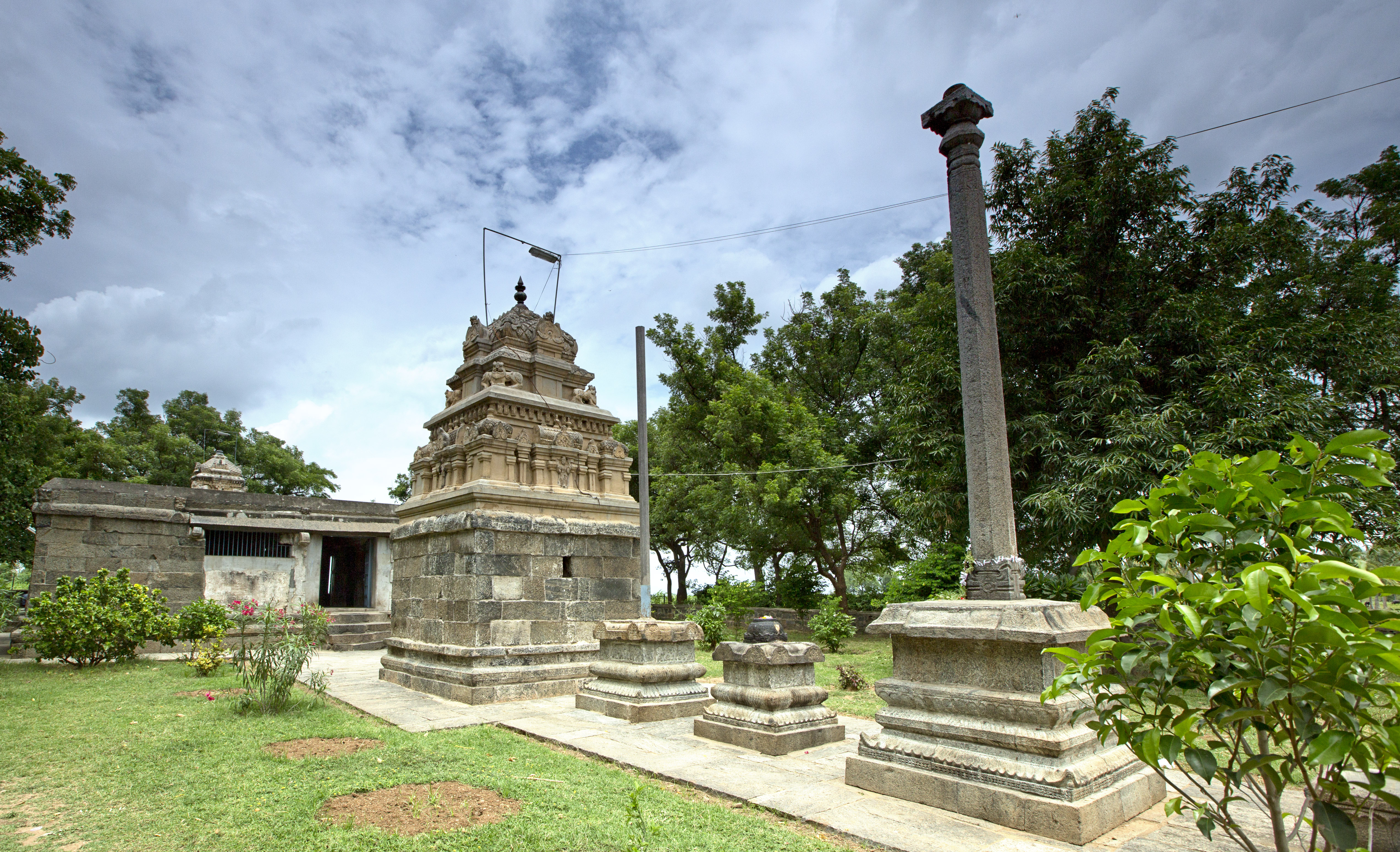 Chennarayaperumaltemple, Adiyamankottai,Dharmapuri